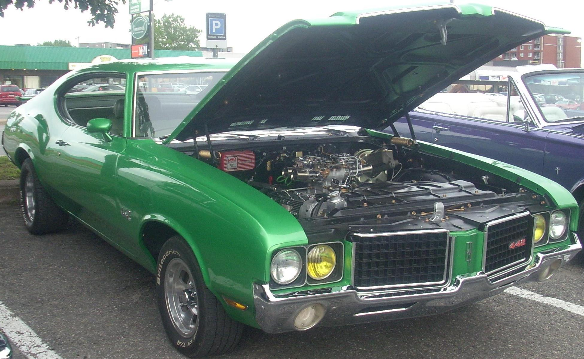 1972 Oldsmobile Cutlass 442 photographed in Laval, Quebec, Canada at Les chauds vendredis 2010.